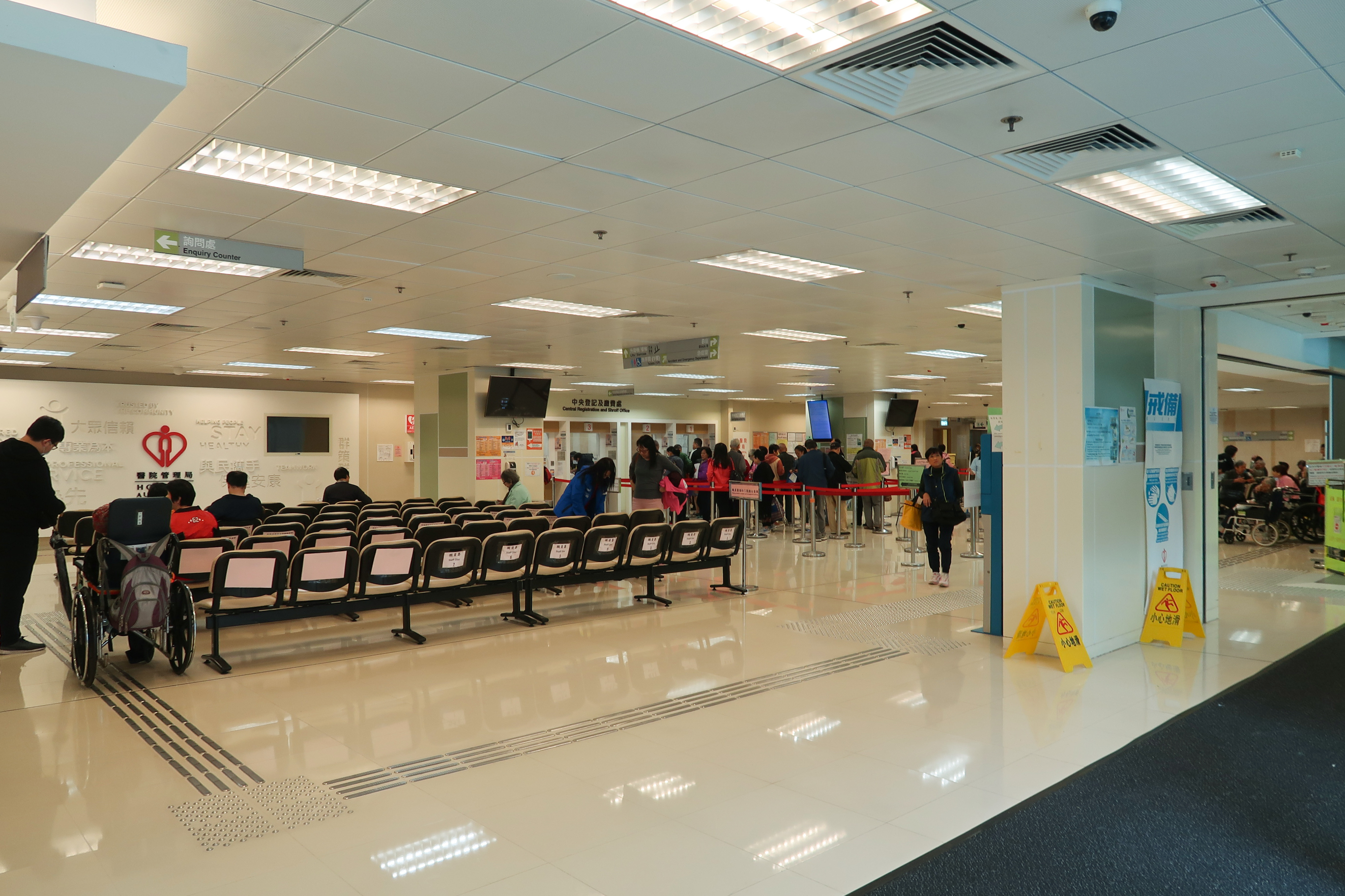 Yan Chai Hospital Block C GF Lobby